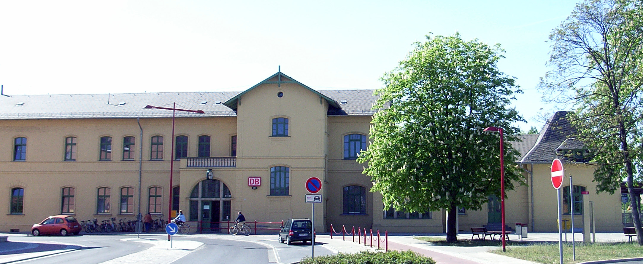 Train station in Hoyerswerda Map: 51° 25′ 59″ N, 14° 13′ 54″ E